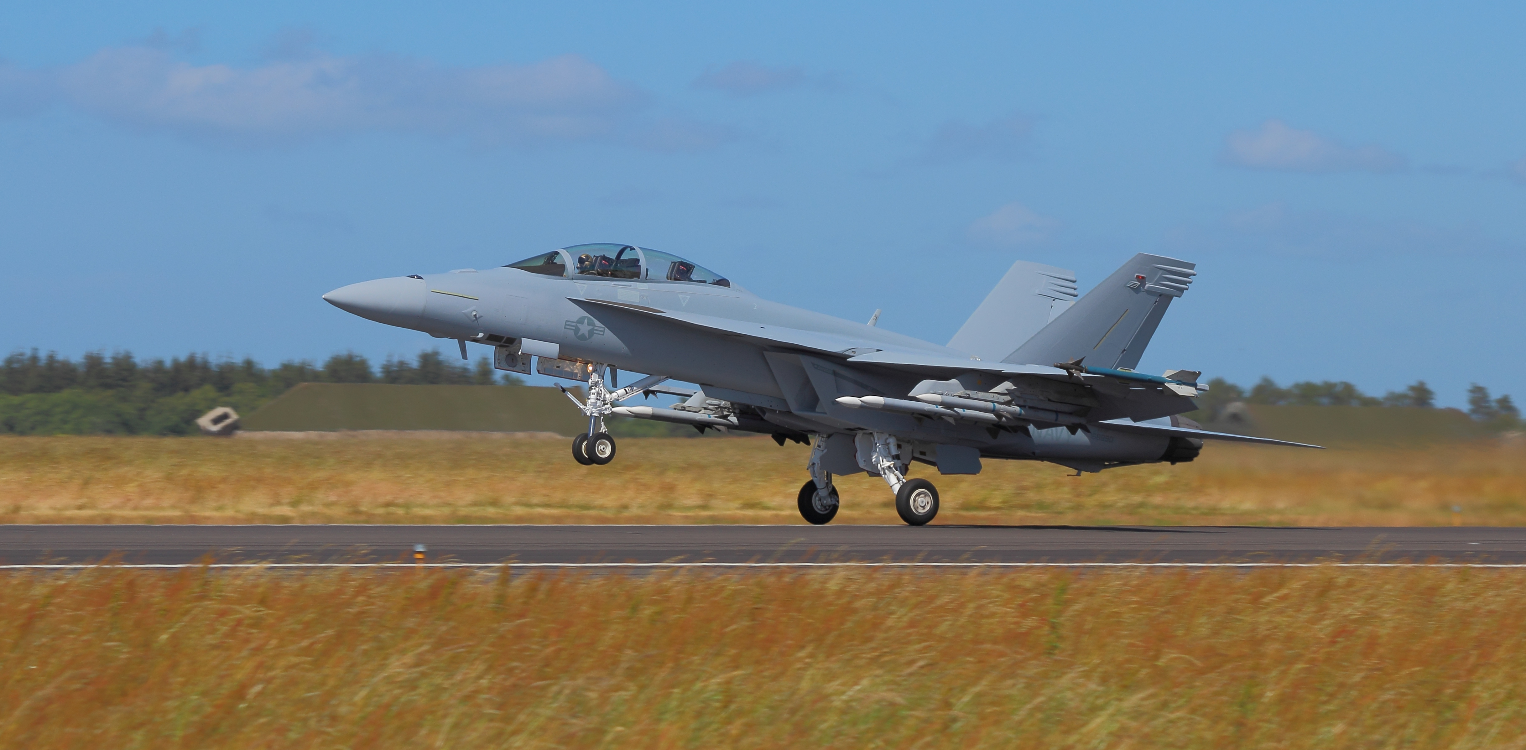 Boeing F/A-18F Super Hornet at takeoff at Danish Air Show 2014.